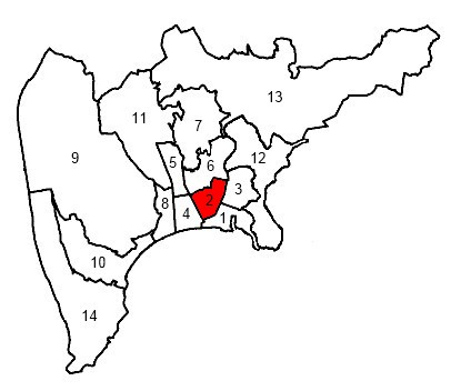 Location of canton of Nice-2 in the city of Nice, Alpes-Maritimes, France.